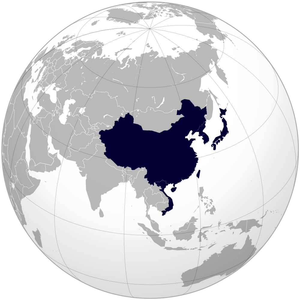 East Asian Cultural Sphere. Restoration of the original Sinosphere image. Japan was heavily culturally influenced by China.